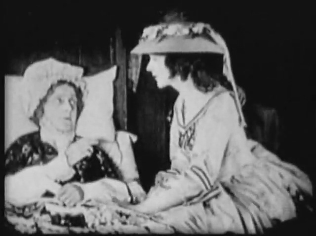 Kate Bruce and Carol Dempster in the film Scarlet Days (1919).